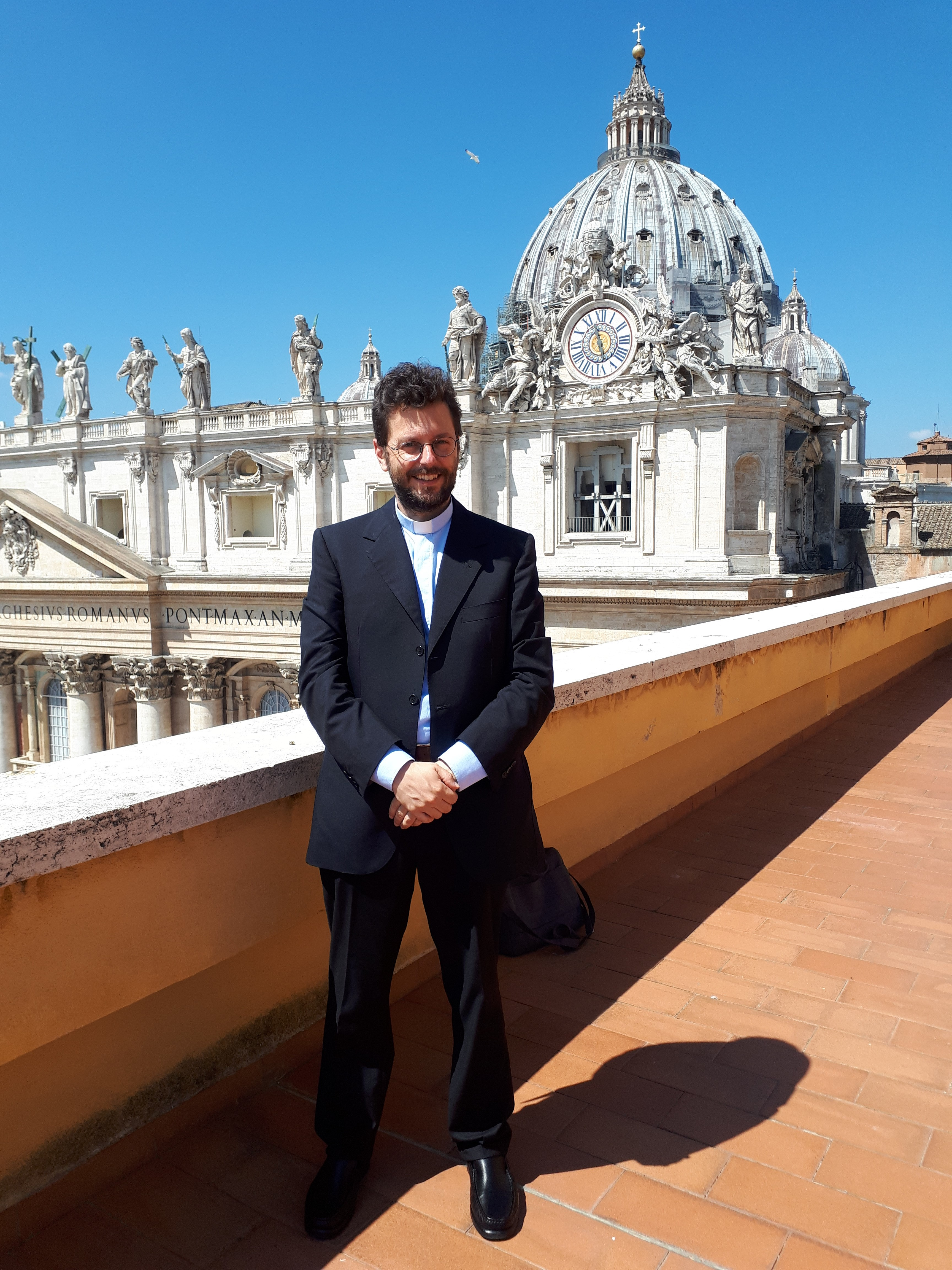 Giorgio Marengo is the Apostolic prefect of the Apostolic Prefecture of Ulaanbaatar, a diocese of the Roman Catholic Church in Mongolia and Titular bishop of Castra Severiana.